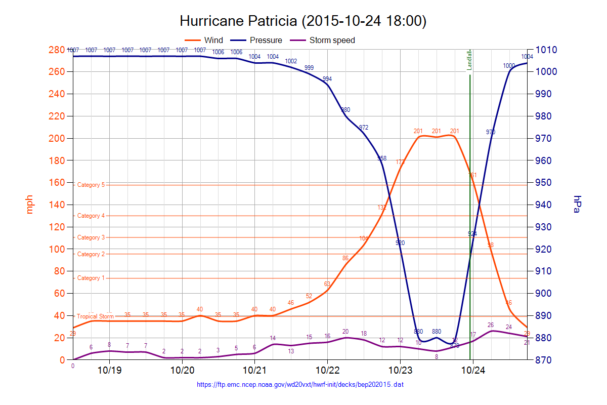 Typhoon Patricia's 1-minute maximum sustained wind, minimum pressure and storm speed